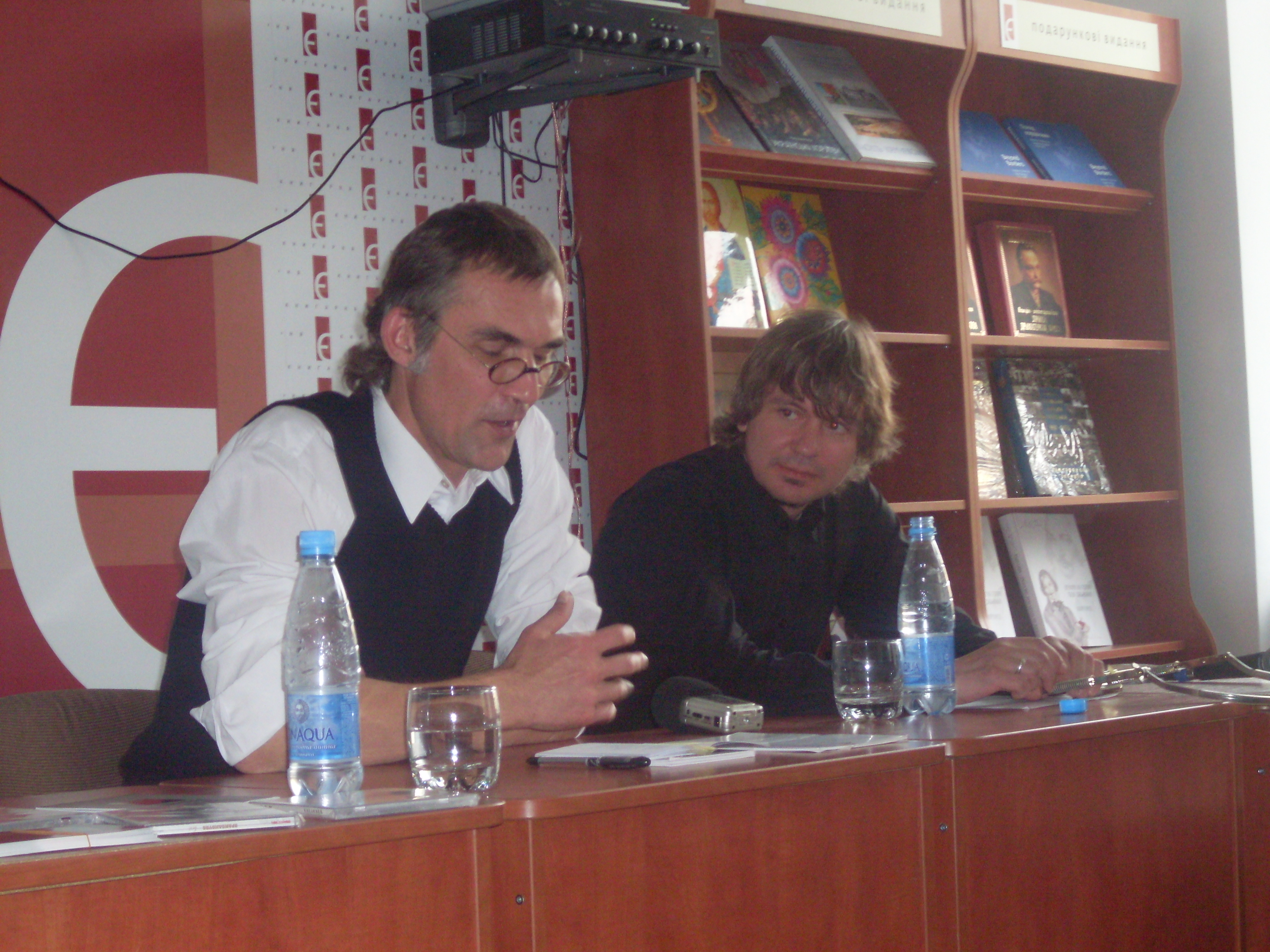 Michał Aniempadystaŭ and Lavon Volski, literary duet during the Lviv Book Forum, "YE" bookshop